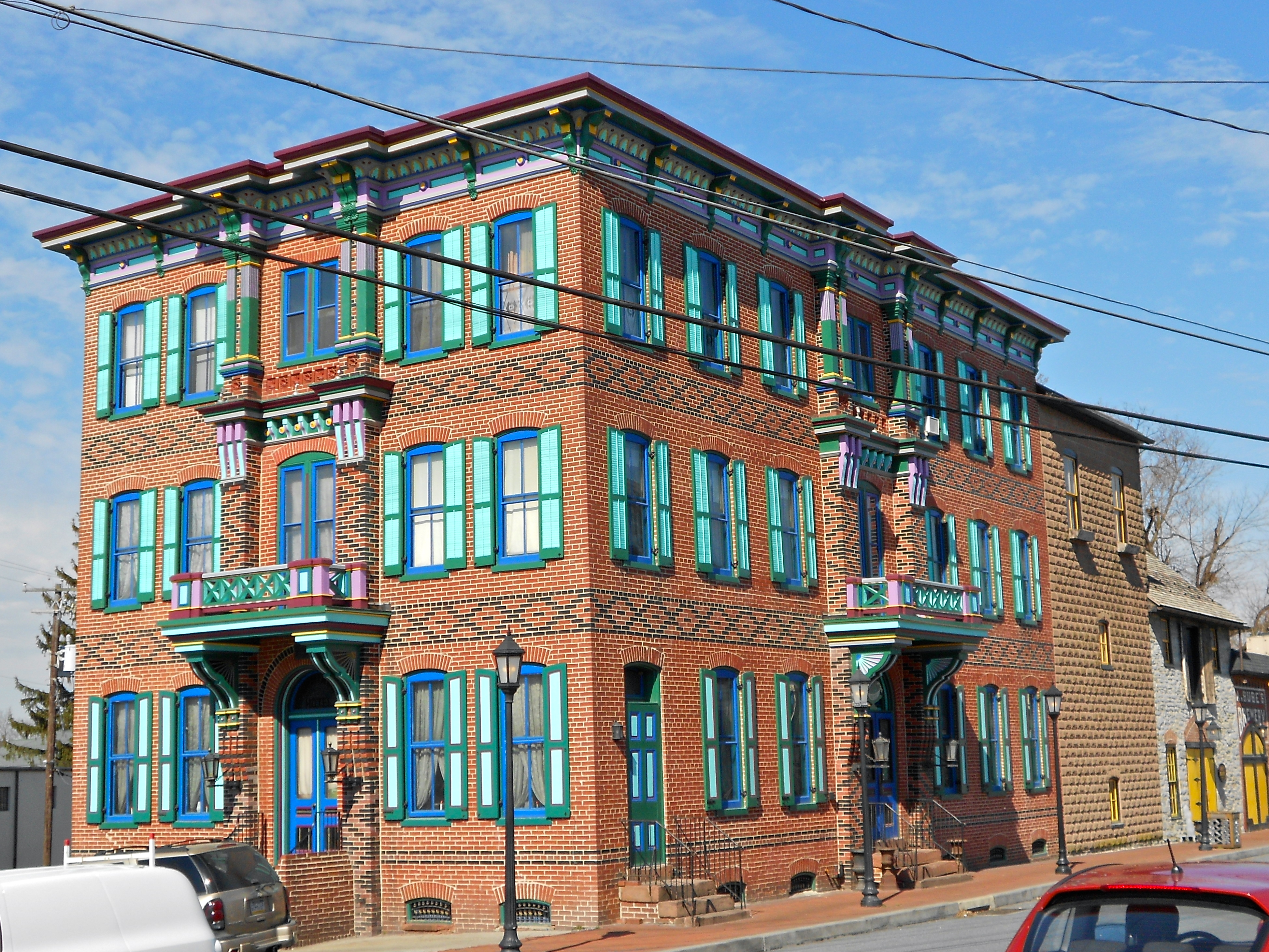 Central Hotel on the NRHP since June 4, 1973. At 102 North Market Street, about 2 blocks north of Main St., Mount Joy, Lancaster County, Pennsylvania.